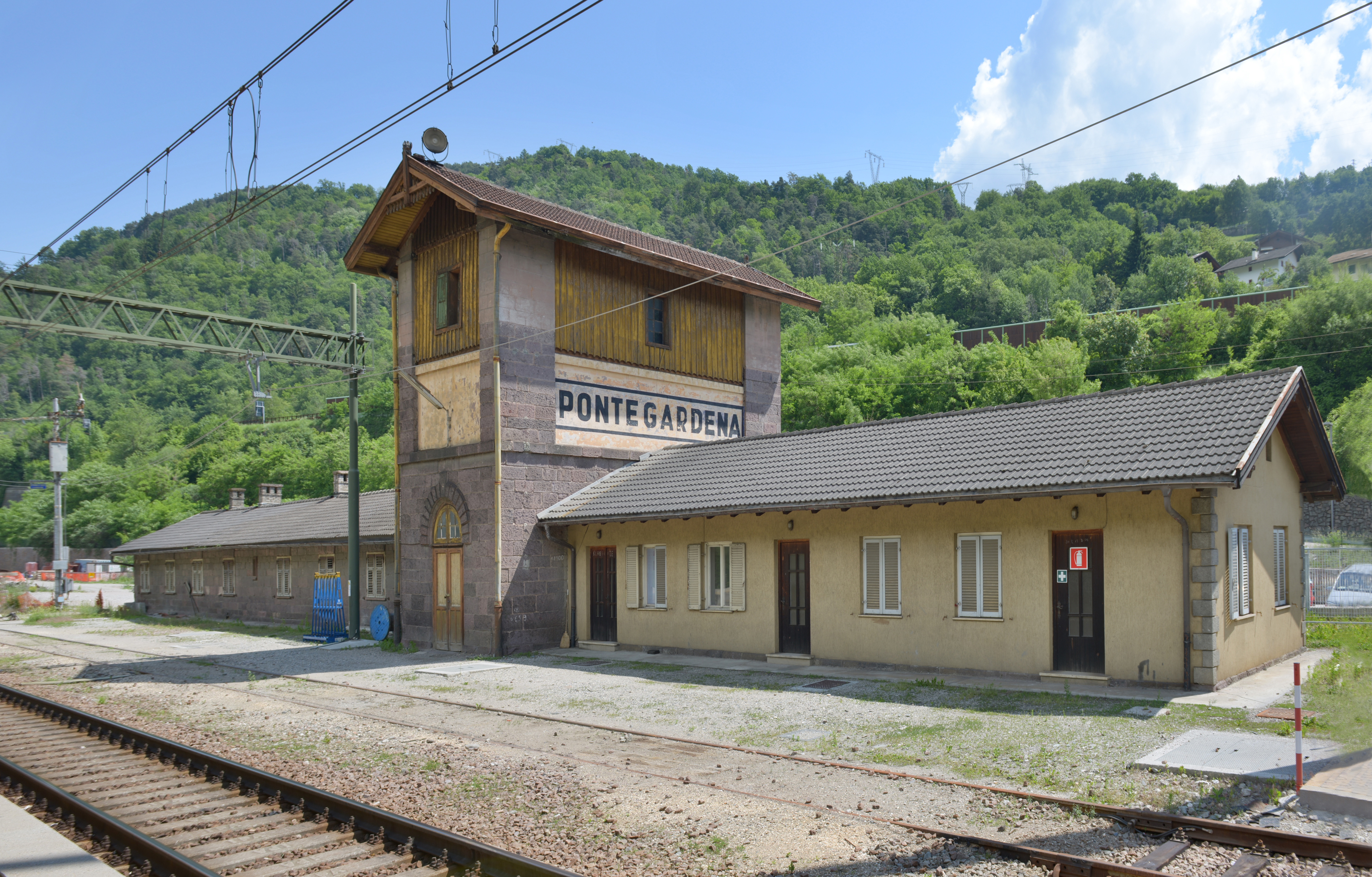 Railway station in Waidbruck.